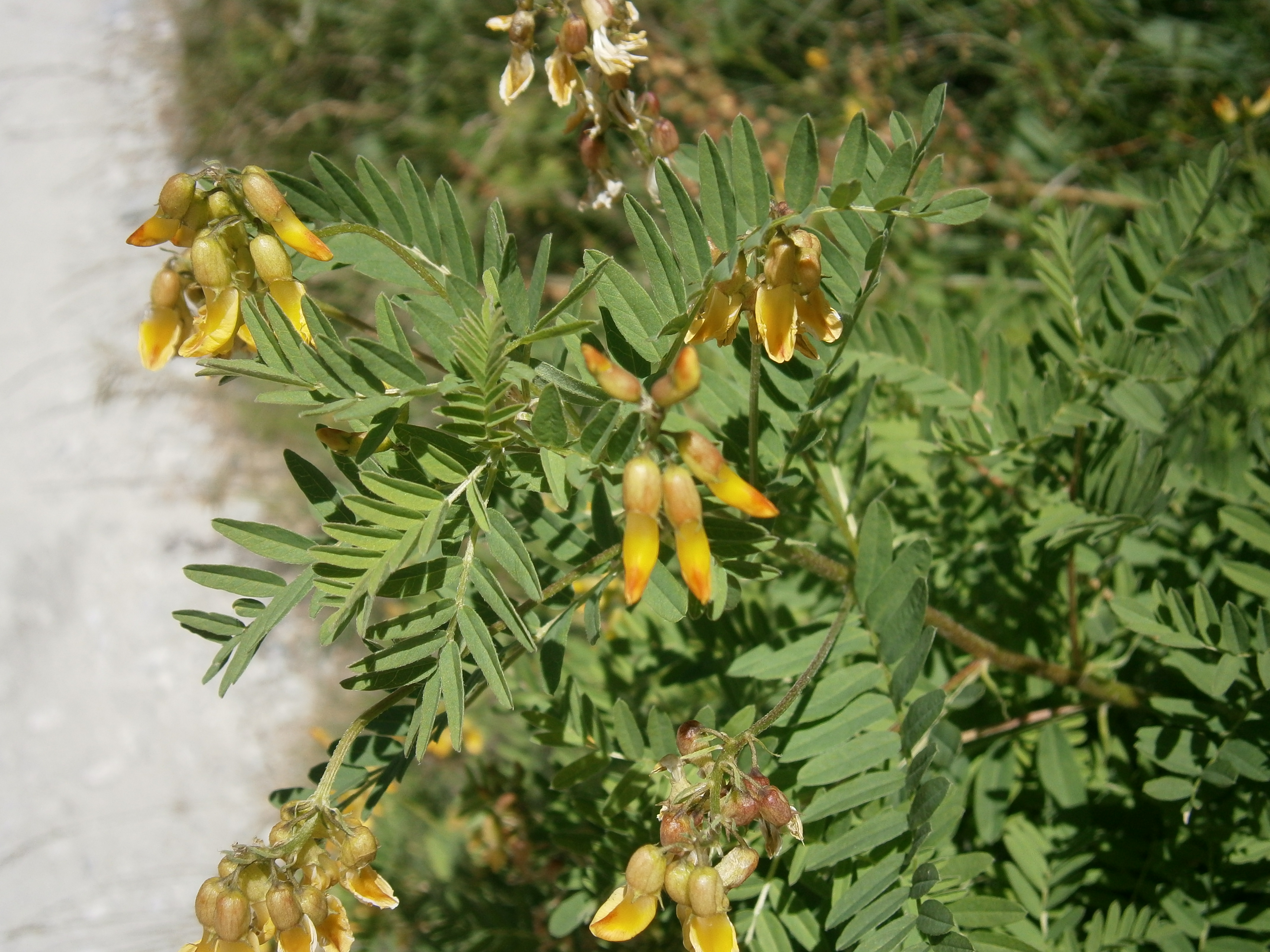 Astragalus penduliflorus